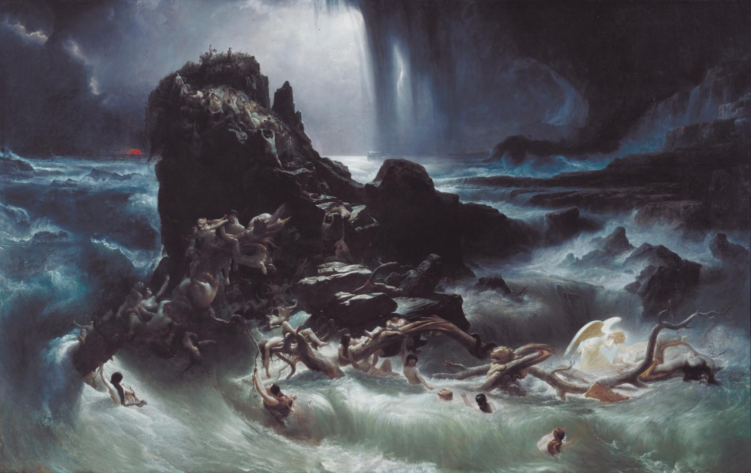 The Deluge. exhibited 1840. Tate Gallery